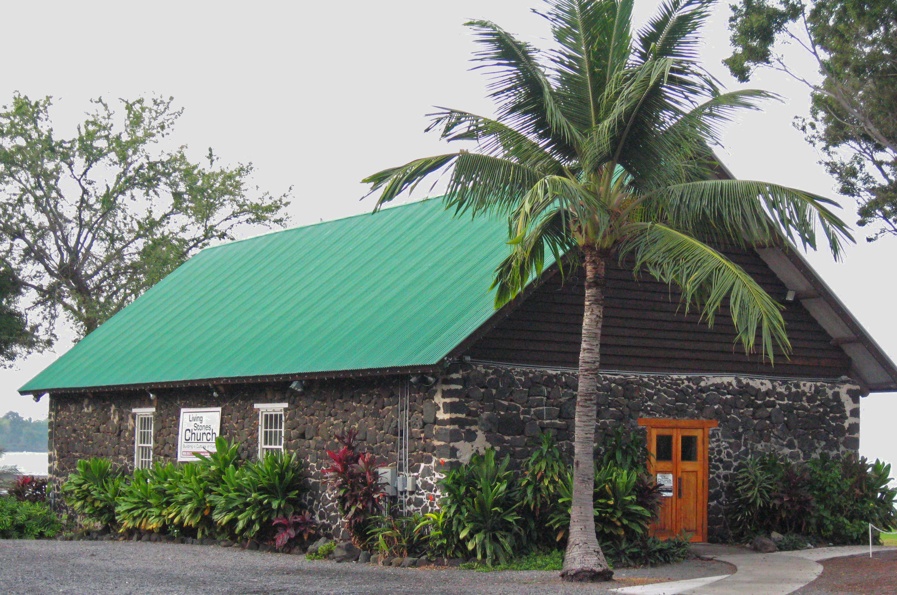 Hale Halawai o Holualoa is an ancient stone church in Kona, Hawaii. It is now the home of the "Living Stones" congregation.